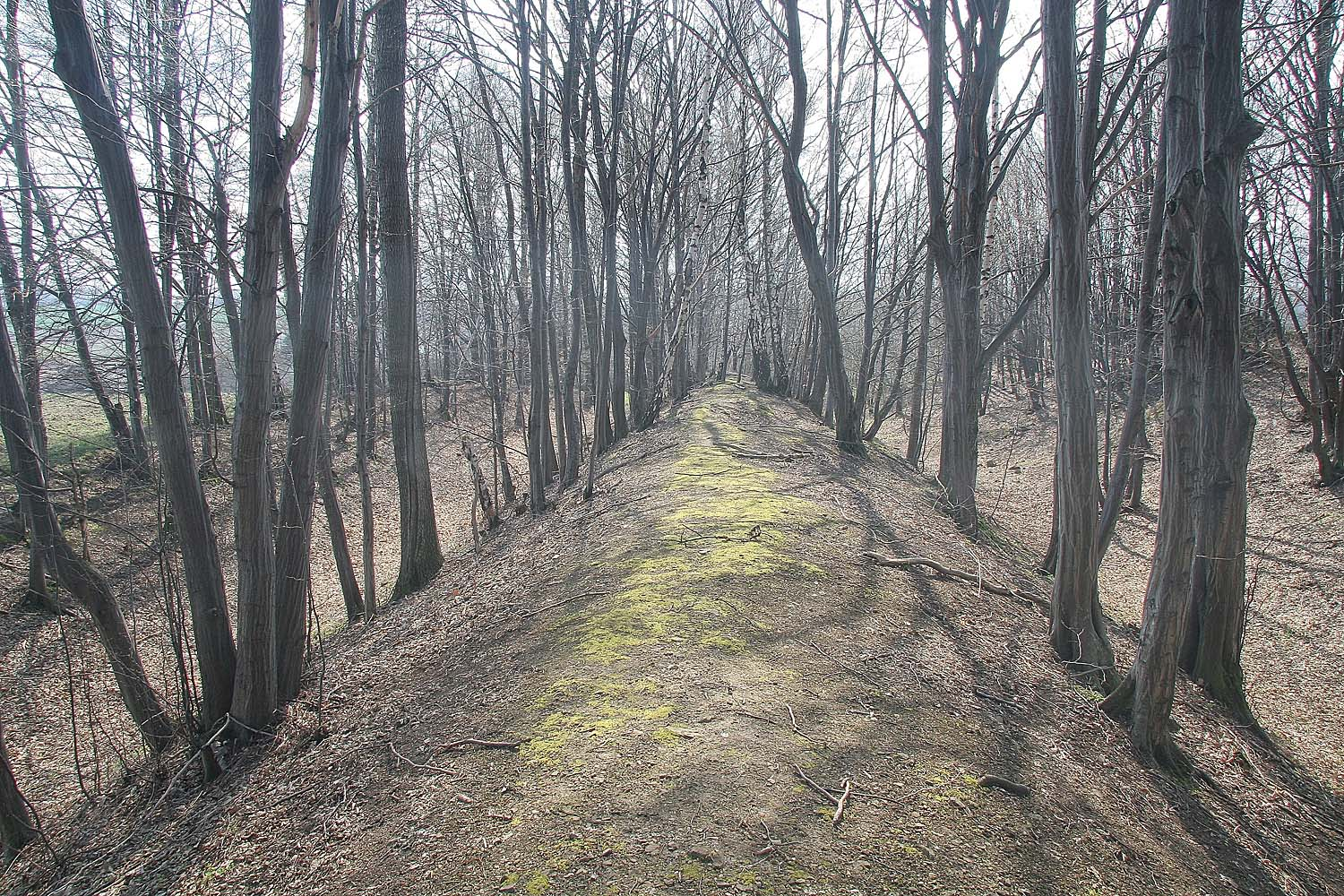 Celtic oppidum from 5th century BCE, České Lhotice, Czech Republic autor:Prazak datum: 1. 4. 2007